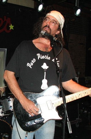 Folk musician James McMurtry at the South by Southwest Festival 2006.